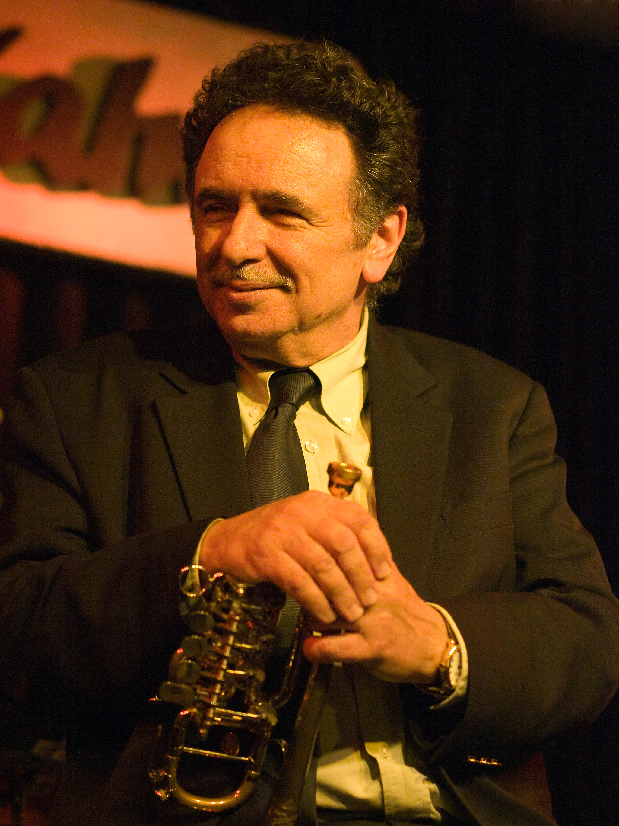 Claudio Roditi, Jazz trumpeter, Picture taken in Jazz Club Unterfahrt, Munich/Bavaria